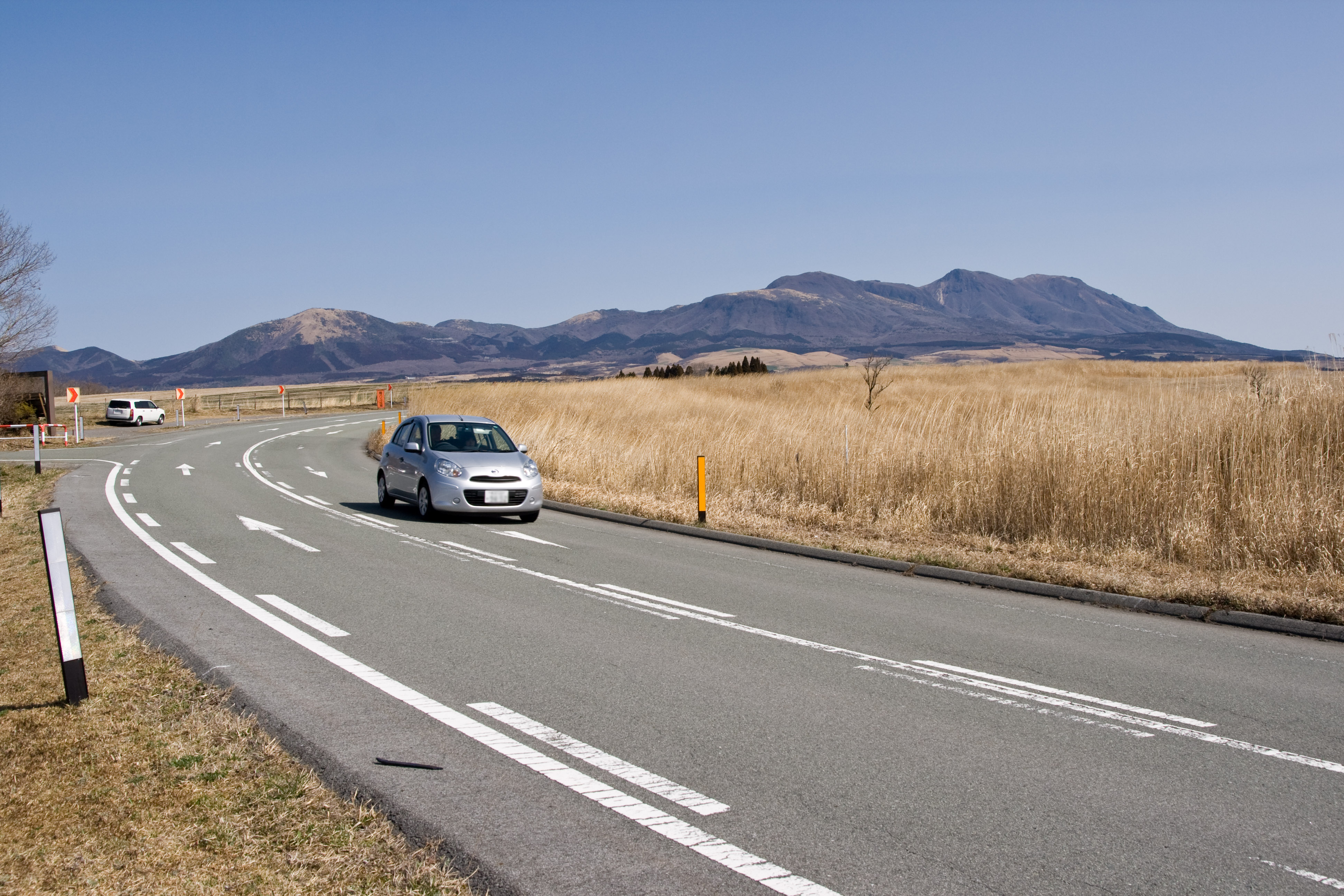 The Oita Prefectural Road and Kumamoto Prefectural Road Route 11, aka Yamanami Highway